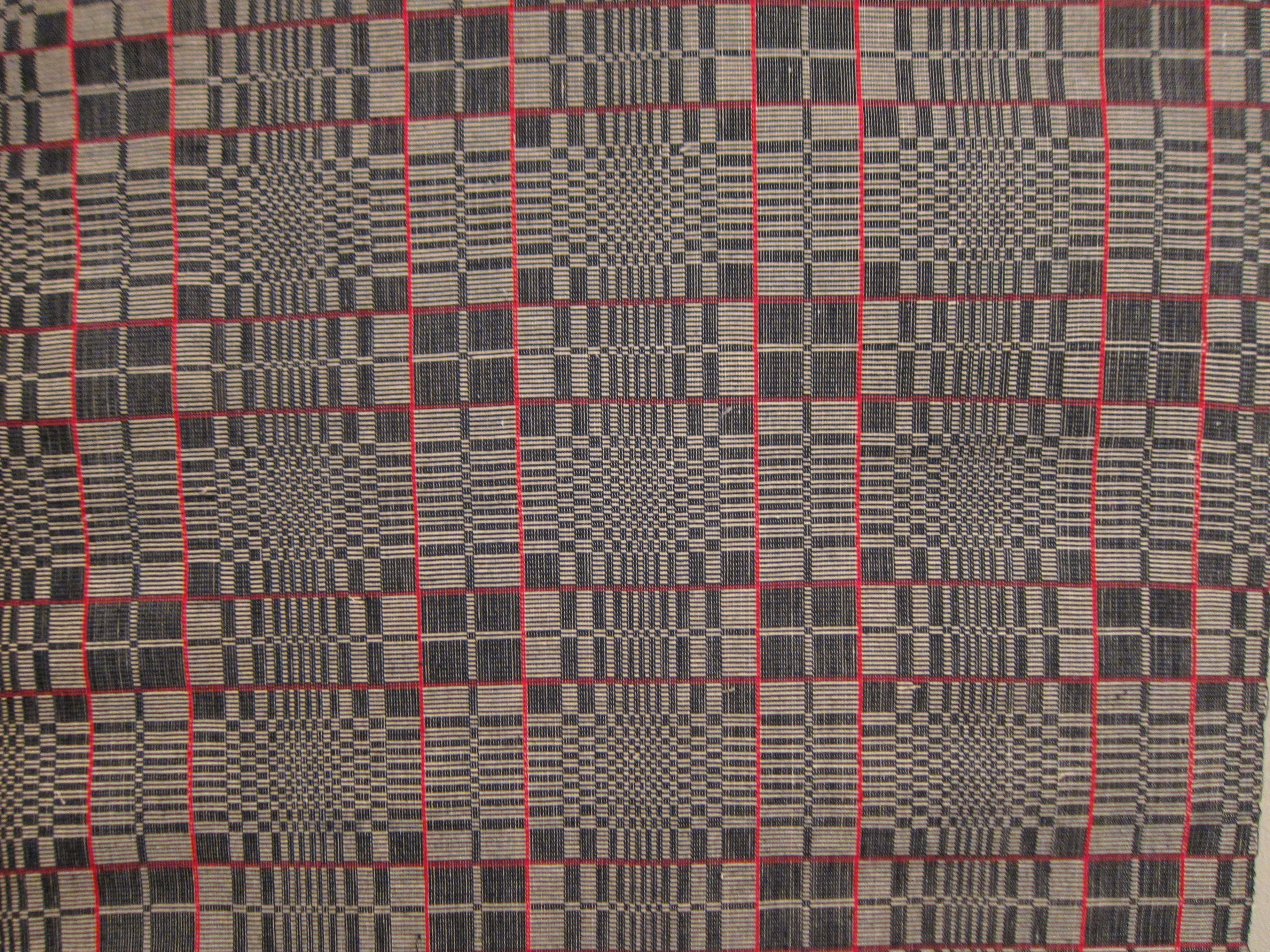 Yardage for binakol (ceremonial blanket) from the Philippines, Northern Luzon, Abra, Tinguian, 20th century, cotton, repp weave, embroidery, Honolulu Museum of Art